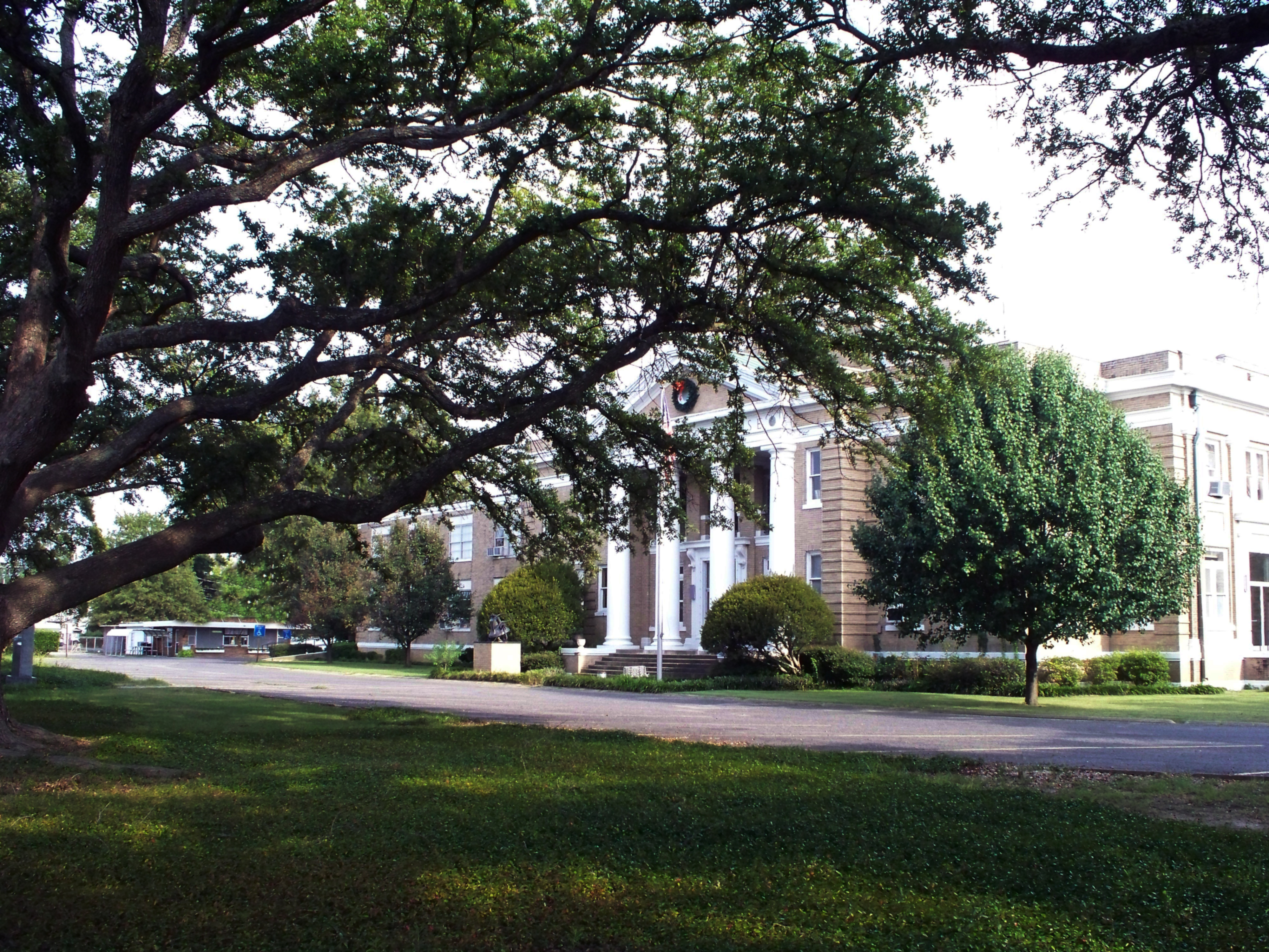 Parish courthouse for West Carroll Parish, in Oak Grove, LA, 71263. Image is shot from Main Street, facing southeast. Artwork and signage, including that at the Little Freezer (background business) is painted out or covered with trees.